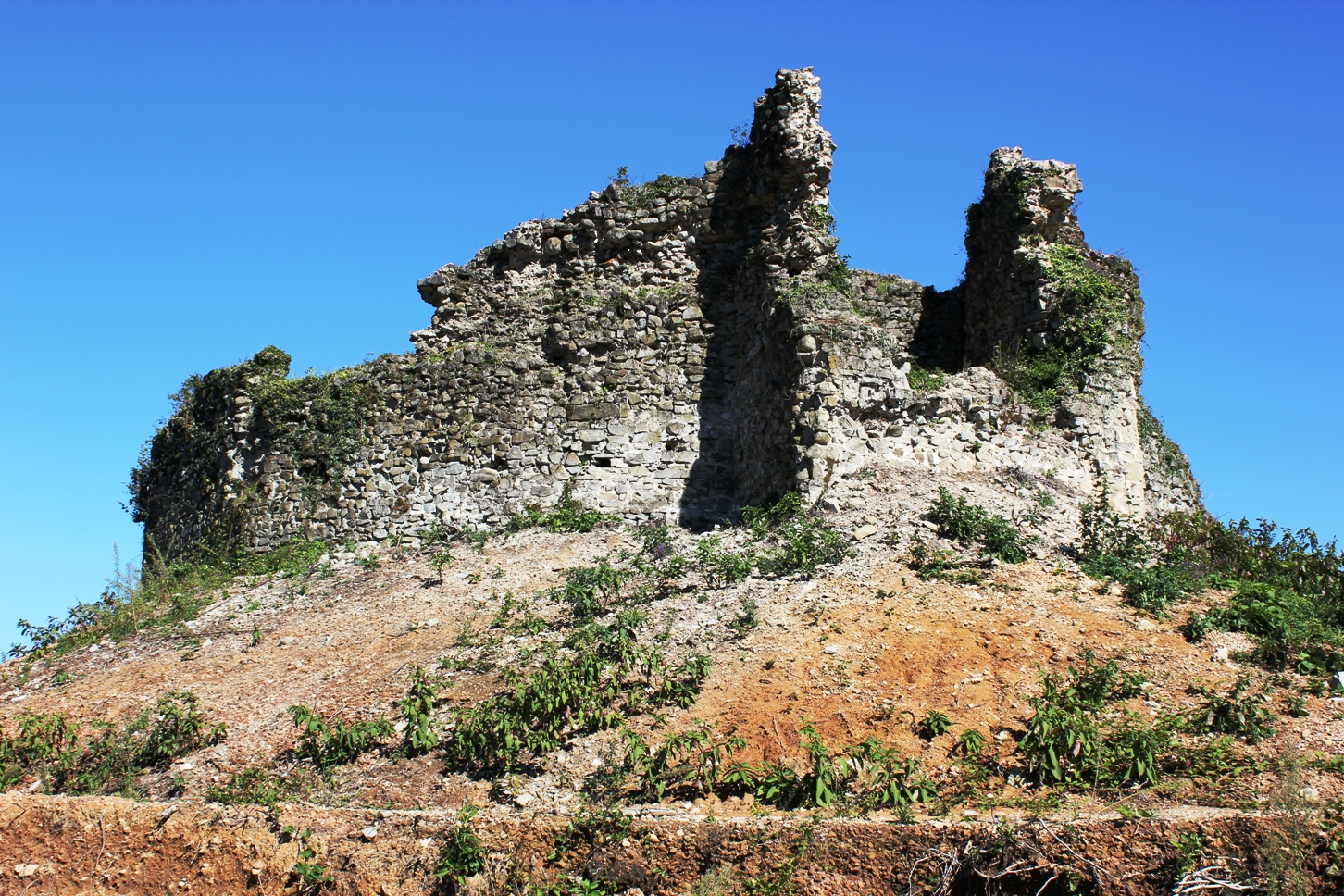 Castle between Ğulivati (Şentepe) and Lamğo (Yücehisar) villages, Rize Province (Lazistan)